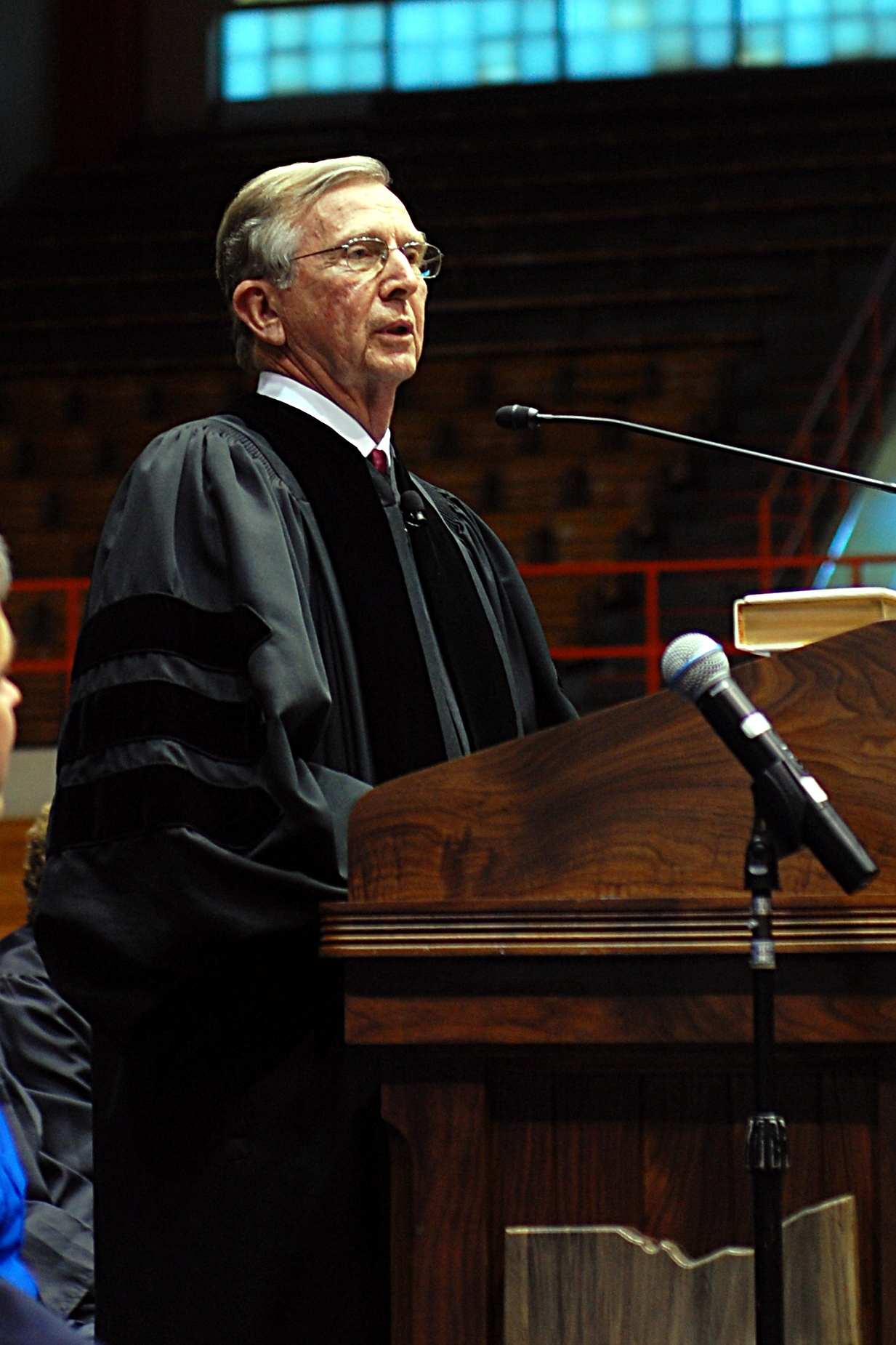 Thomas J. Moyer, longtime Chief Justice of the Supreme Court of Ohio, speaking to the 2008 Ohio Boys State assembly. Photo is taken on the campus of Bowling Green State University in Bowling Green, Ohio, United States.